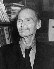 former Senator Andrew Jackson Houston of Texas.